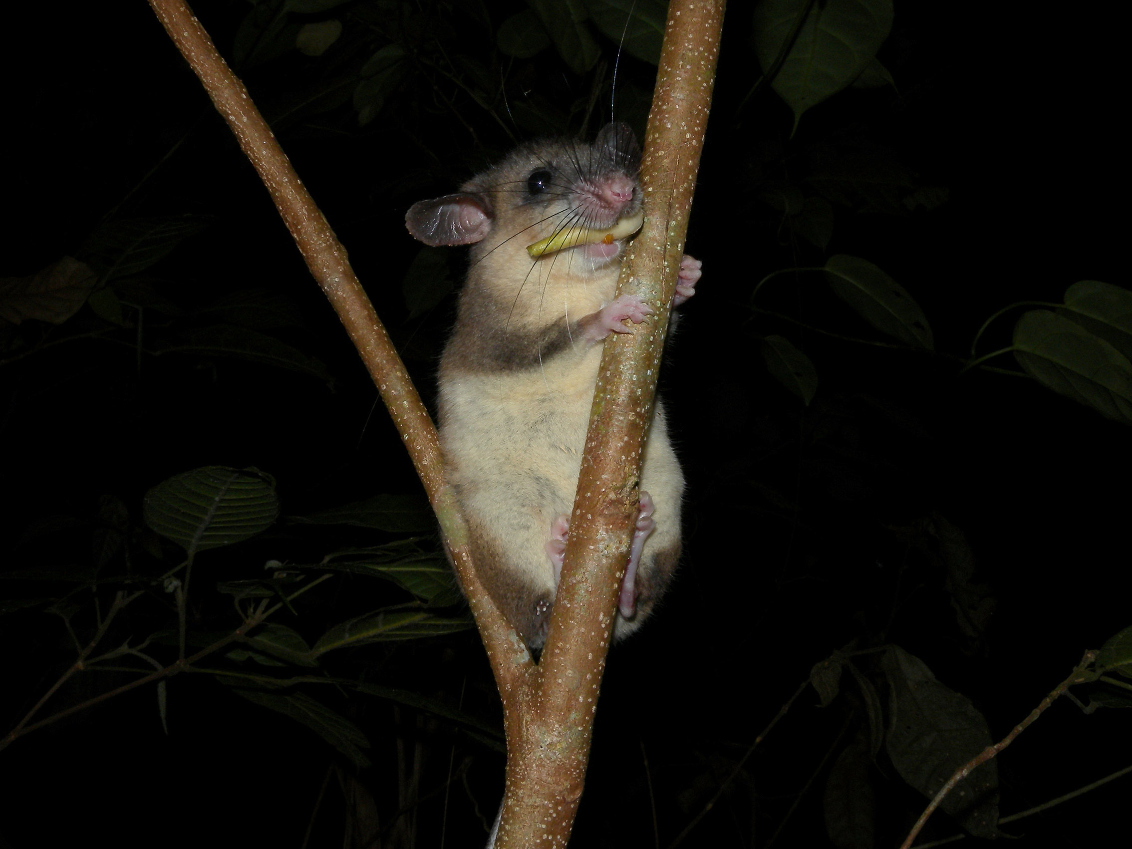 Eliurus sp., image taken in Marojejy National Park, Madagascar